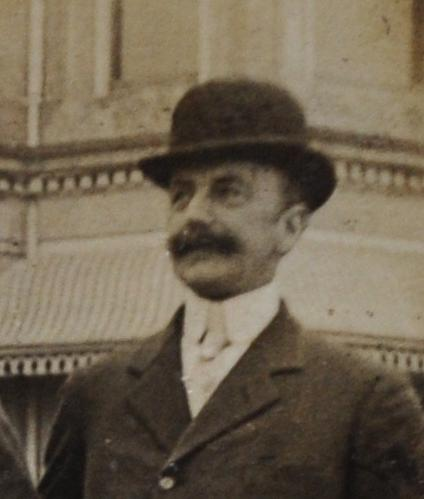 Gustave de Terwangne (ca. 1917).